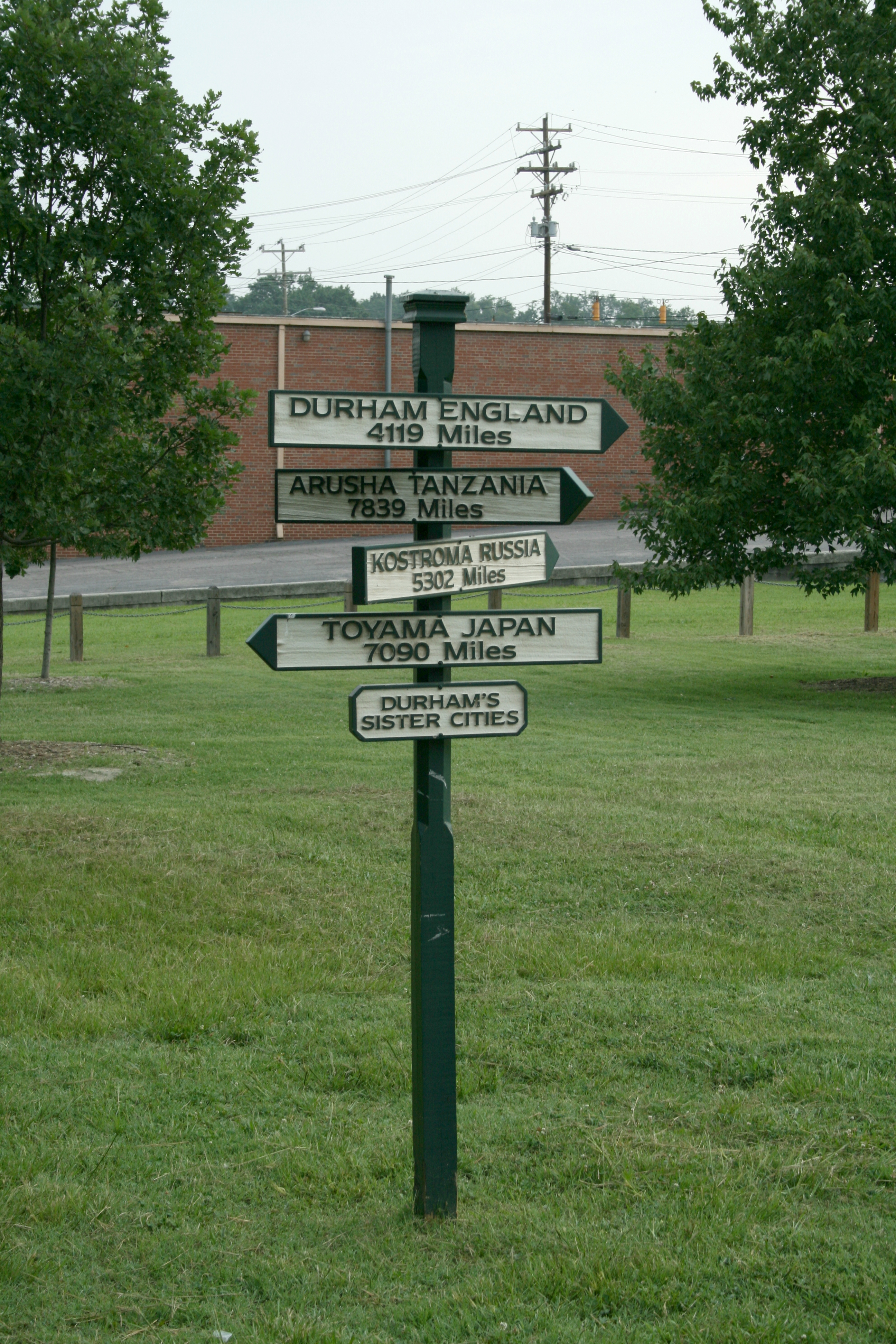 Sign indicating Durham's sister cities in Durham, North Carolina.